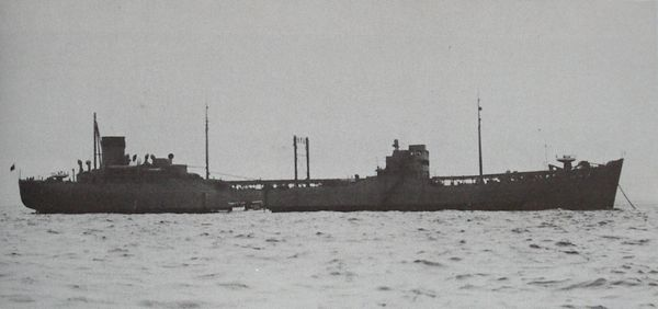 IJN Aux. oiler Shinkoku Maru